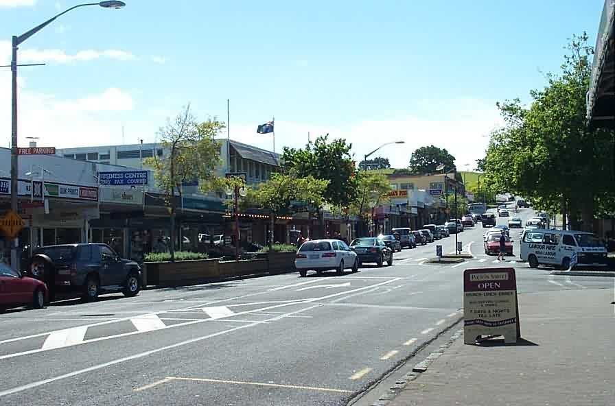 Howick Main Strett (Picton Street) with Stockade hill in the distance.